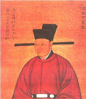 Song Hui Zong